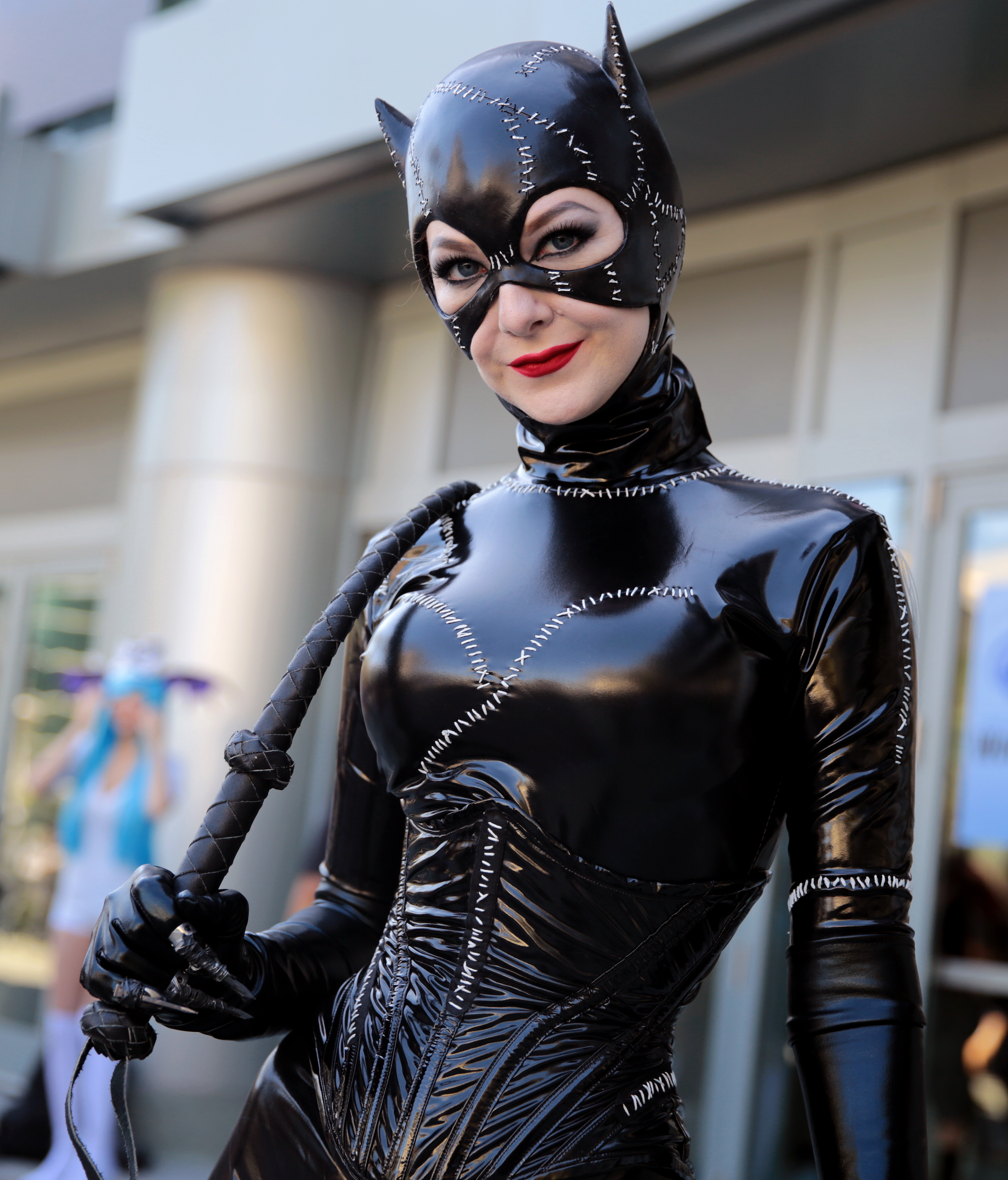 Catwoman cosplayer at the 2017 WonderCon at the Anaheim Convention Center in Anaheim, California.